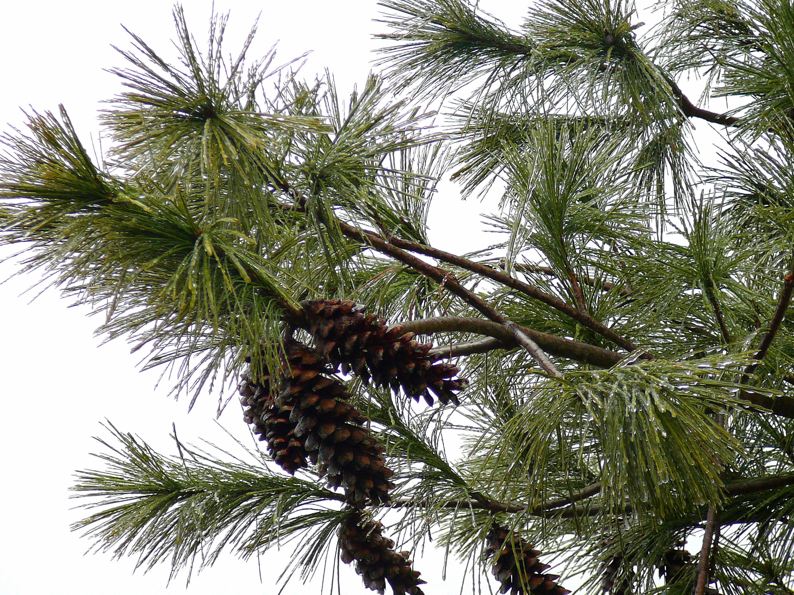 Pinus strobus foliage and cones, weighed down with glazed ice. Washington DC, USA.